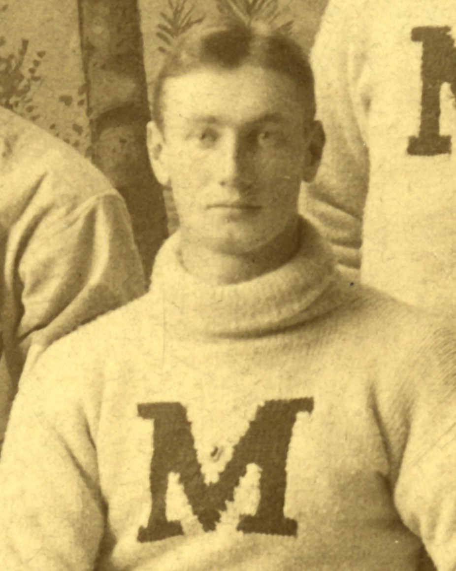 Photograph of George Codd, captain, cropped from team portrait of the 1891 University of Michigan baseball team